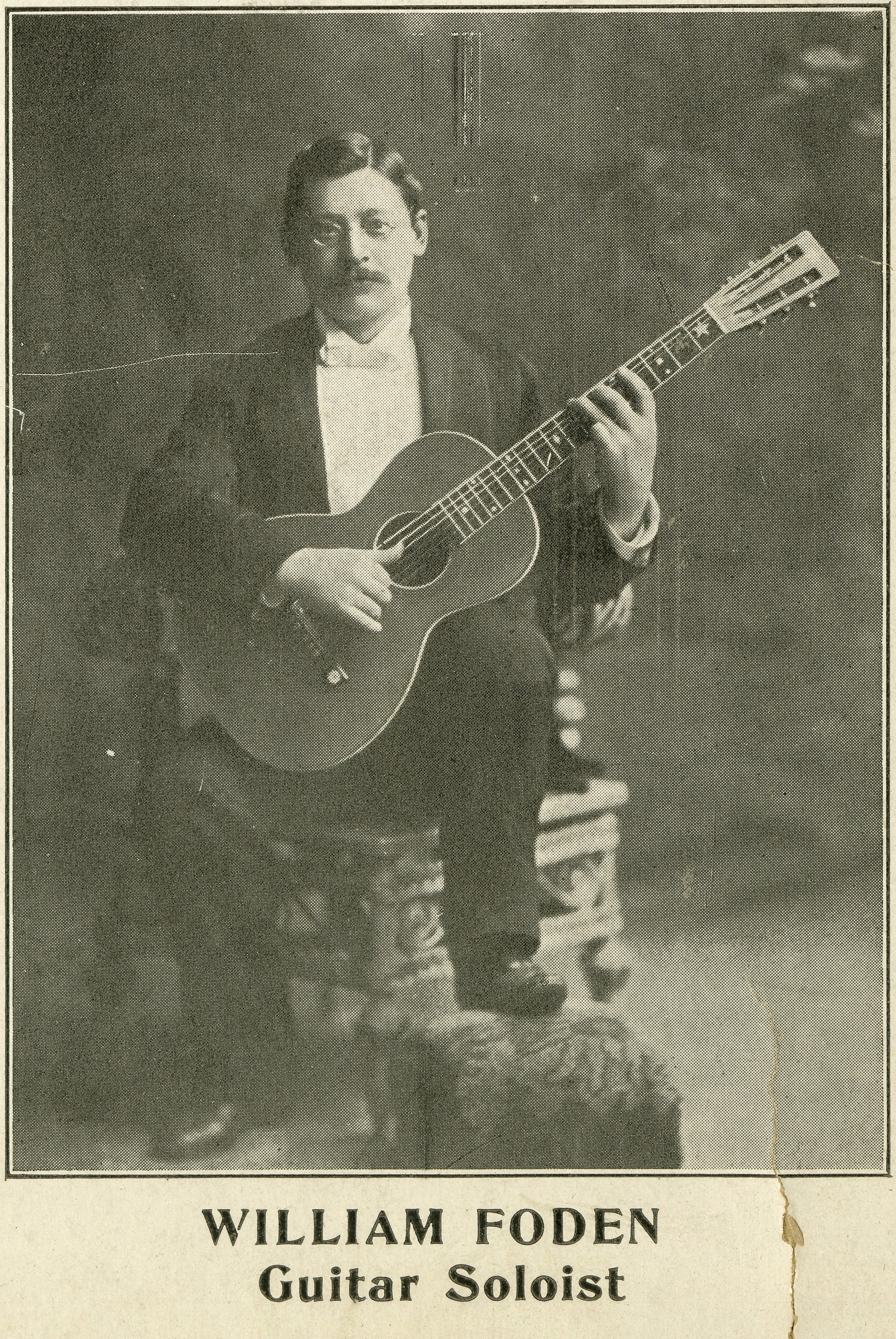 William Foden, guitarist, at the Annual concert of American Guild of banjoists, mandolinists and guitarists, Witherspoon Hall, Philadelphia, May 27, 1918. He was a featured player with Frederick J. Bacon and Samuel Siegel.